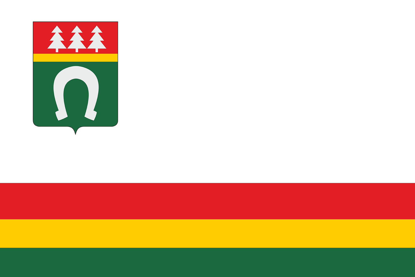 Flag of city Tosno.